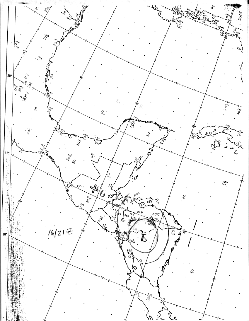 The National Hurricane Center's surface weather analysis of Tropical Depression Gert inland near the Honduras-Nicaragua border at 2100 UTC on September 16, 1993.